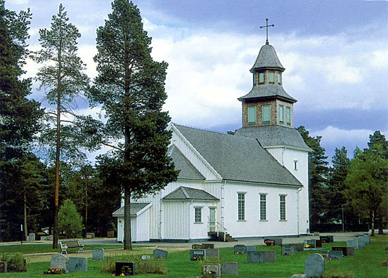 Seskarö Church in Haparanda Municipality in northern Sweden